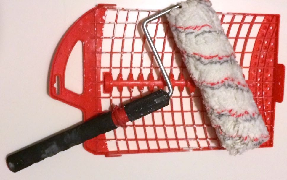 Paint roller with wiper